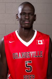 Matur Maker with Orangeville Prep in November 2014